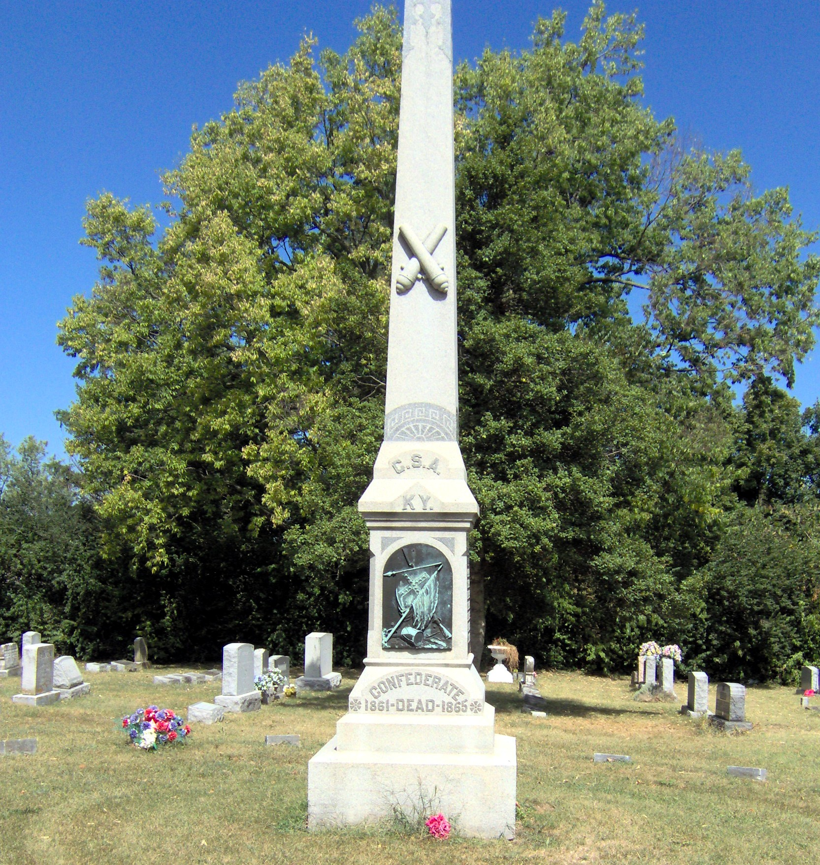 Confederate Soldier Memorial located at Georgetown Cemetery in Georgetown, Kentucky.